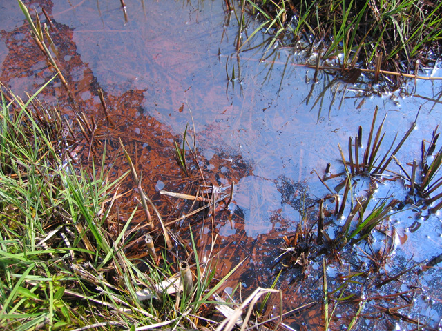 Film of ferric oxide in the Hakone Botanical Garden of Wetlands (箱根湿生花園 Hakone-shissei-kaen) — in in Hakone town, Kanagawa pref, Honshu, Japan. IXY Digital 500